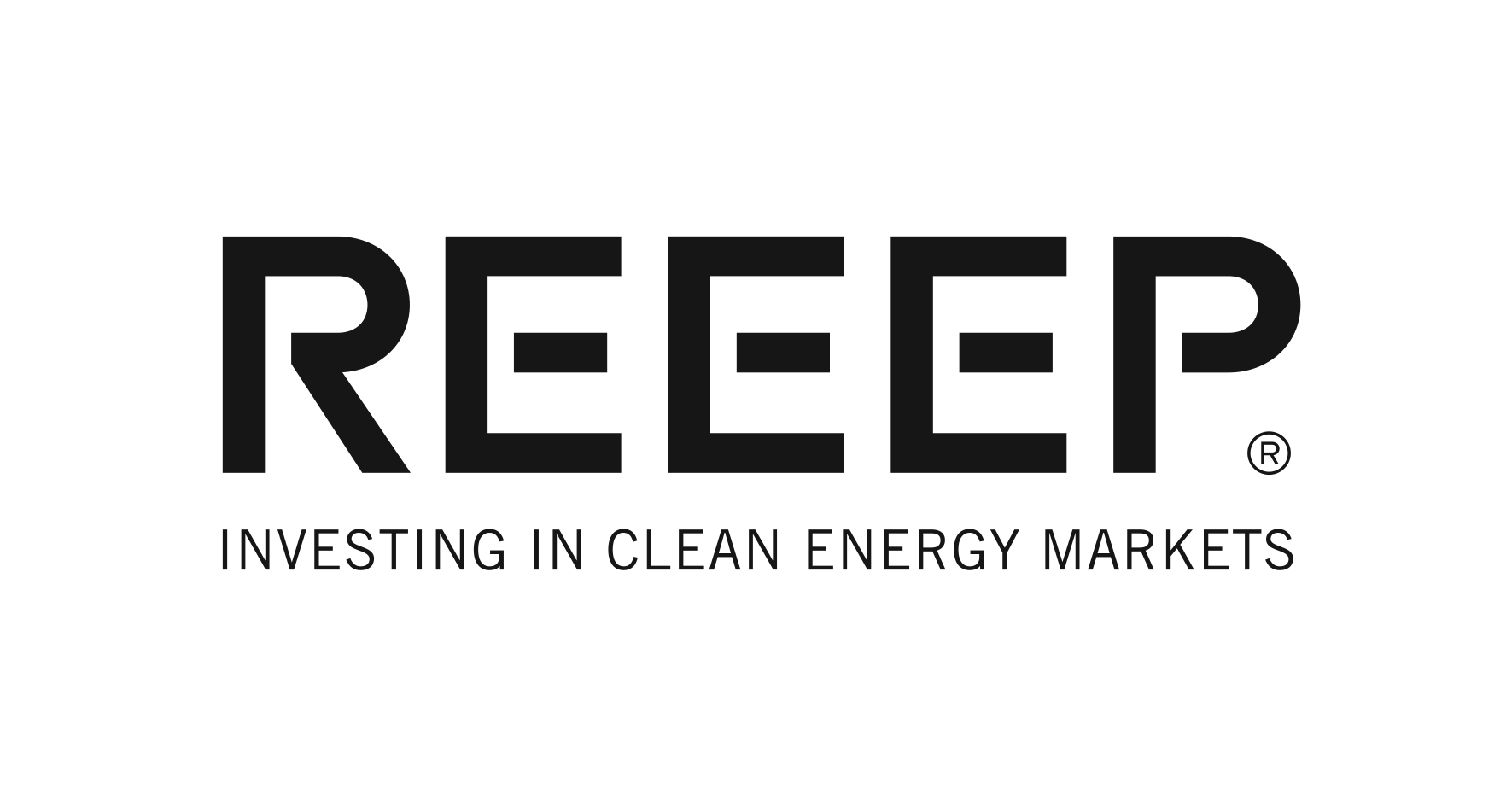 The logo of the Renewable Energy and Energy Efficiency Partnership (REEEP), including tagline "Investing in Clean Energy Markets"